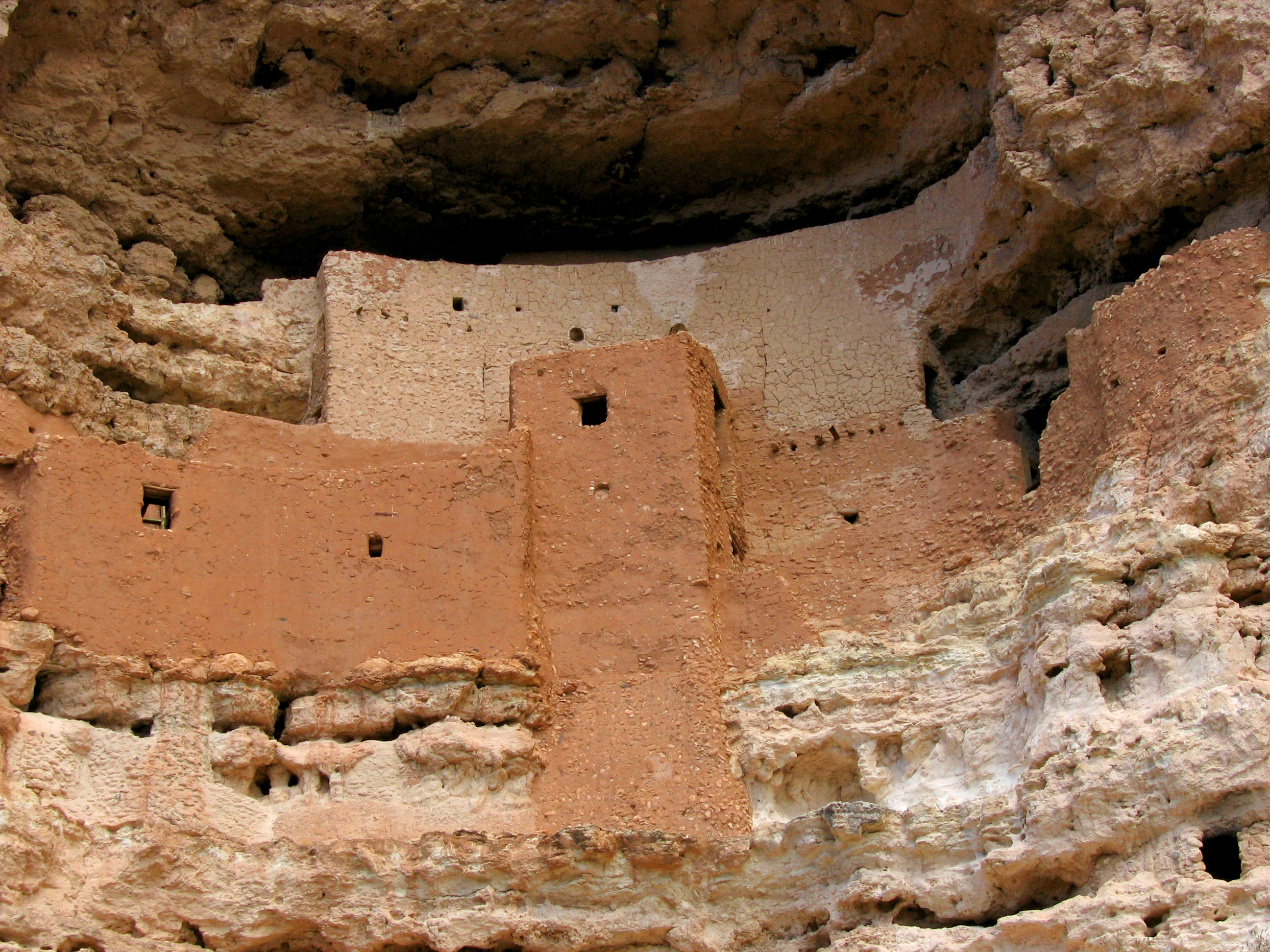 Closeup of cliff dwelling structure at Montezuma Castle National Monument, Arizona.